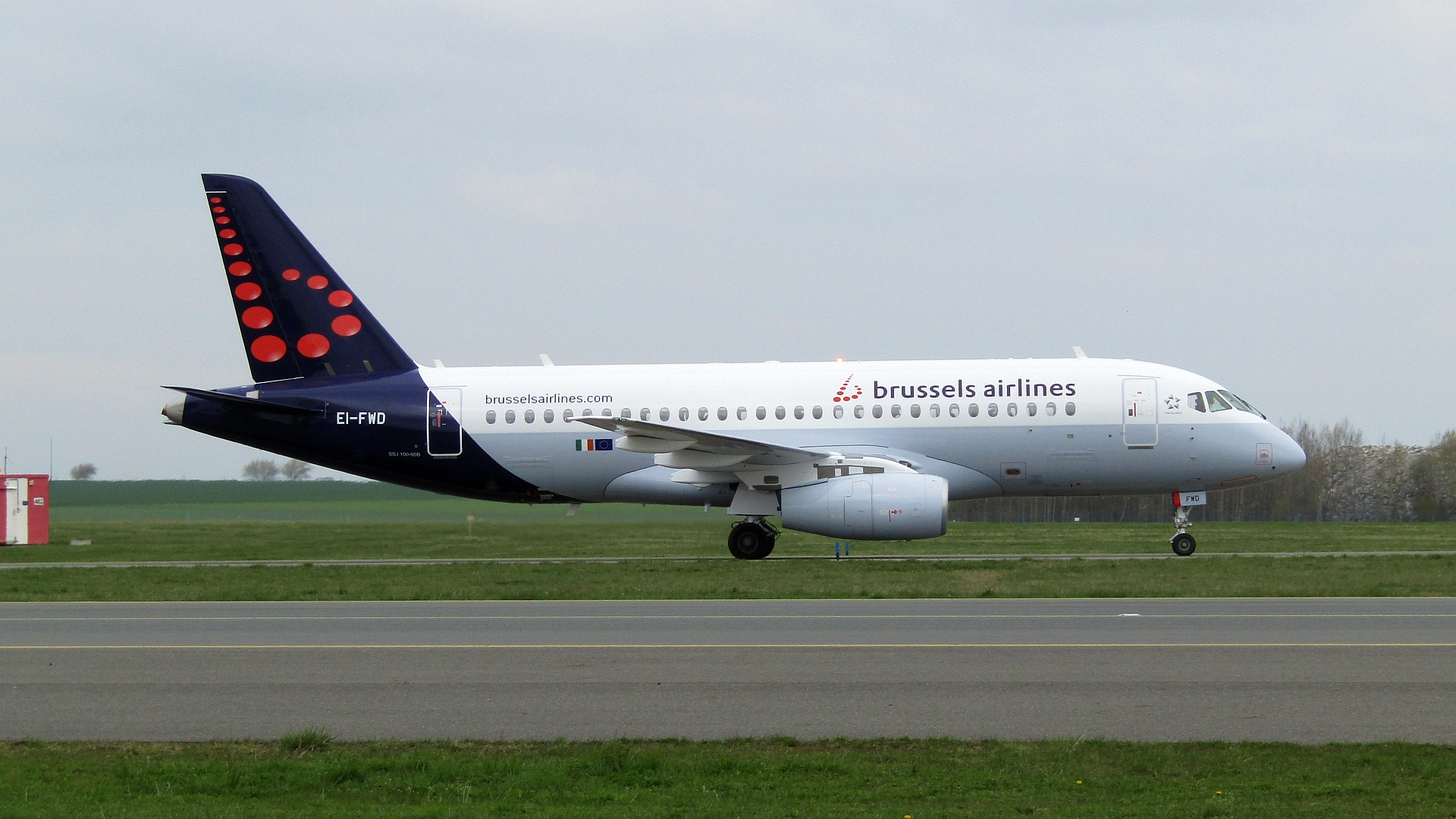 Sukhoi SuperJet, Brussels Airlines, PRG